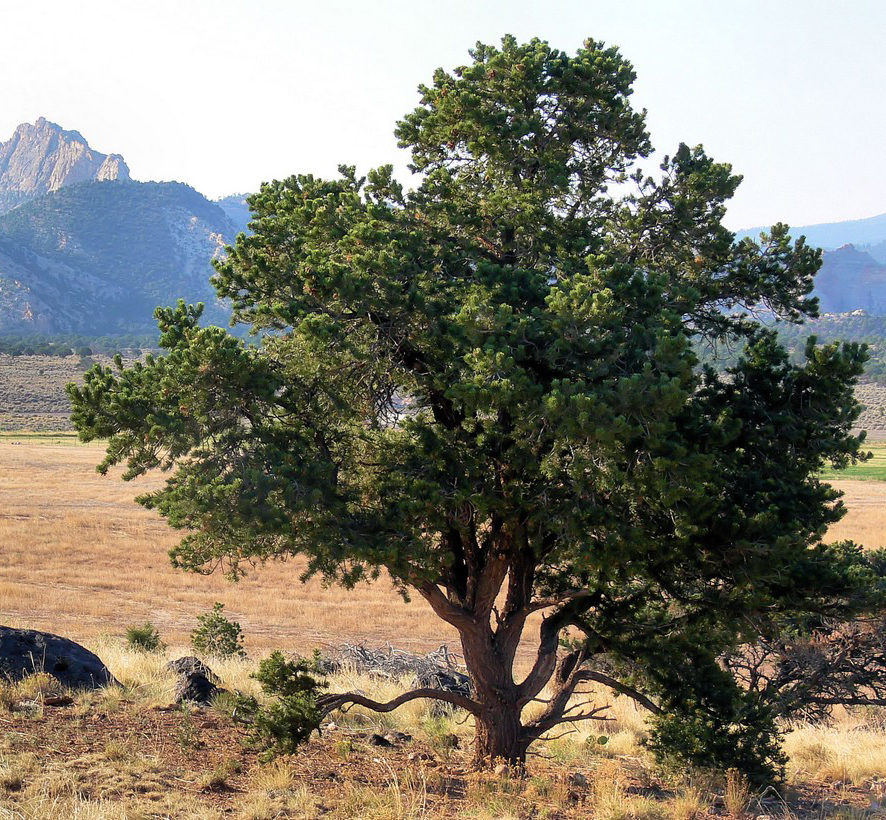 Pinus edulis, Coxcomb Formation, near Torrey, Utah.